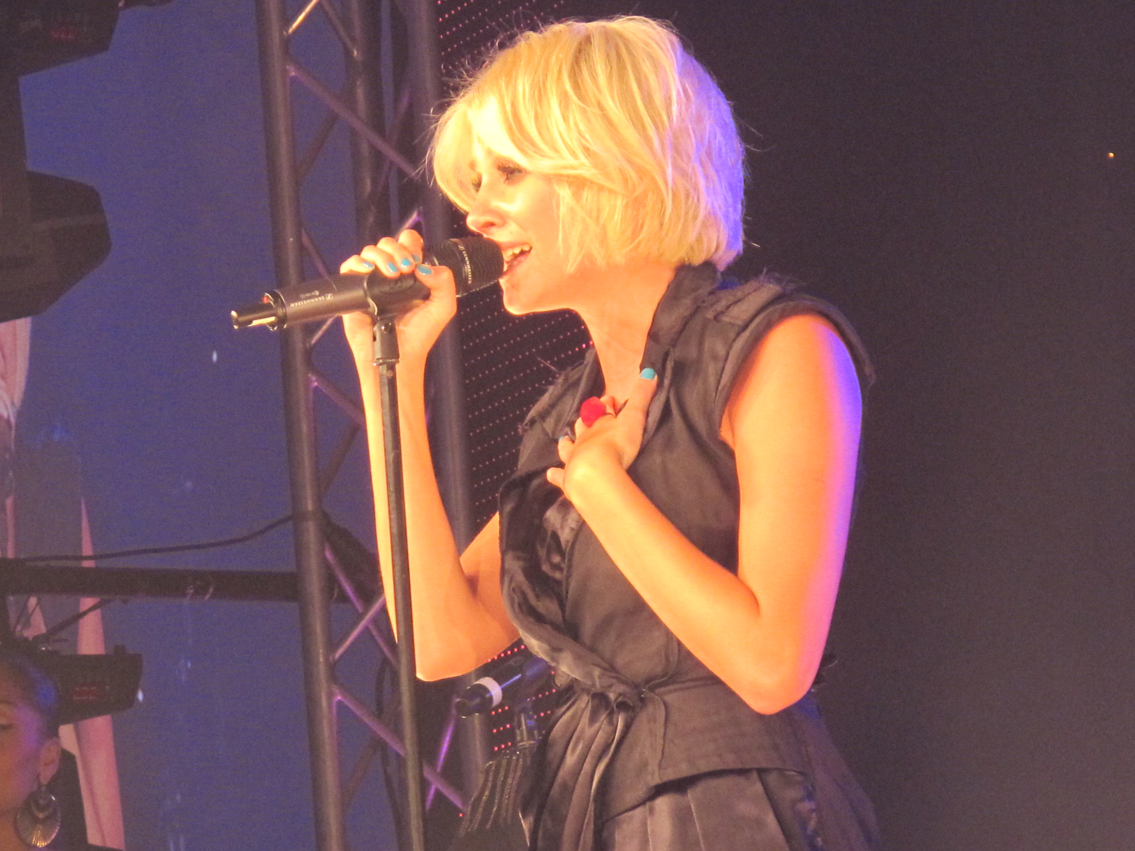 Pixie Lott performing at the Arqiva Awards 2011.